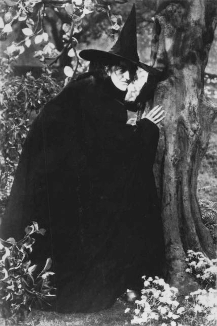 Publicity photo of American actress, Margaret Hamilton as the Wicked Witch of the West in the 1939 MGM feature film The Wizard of Oz